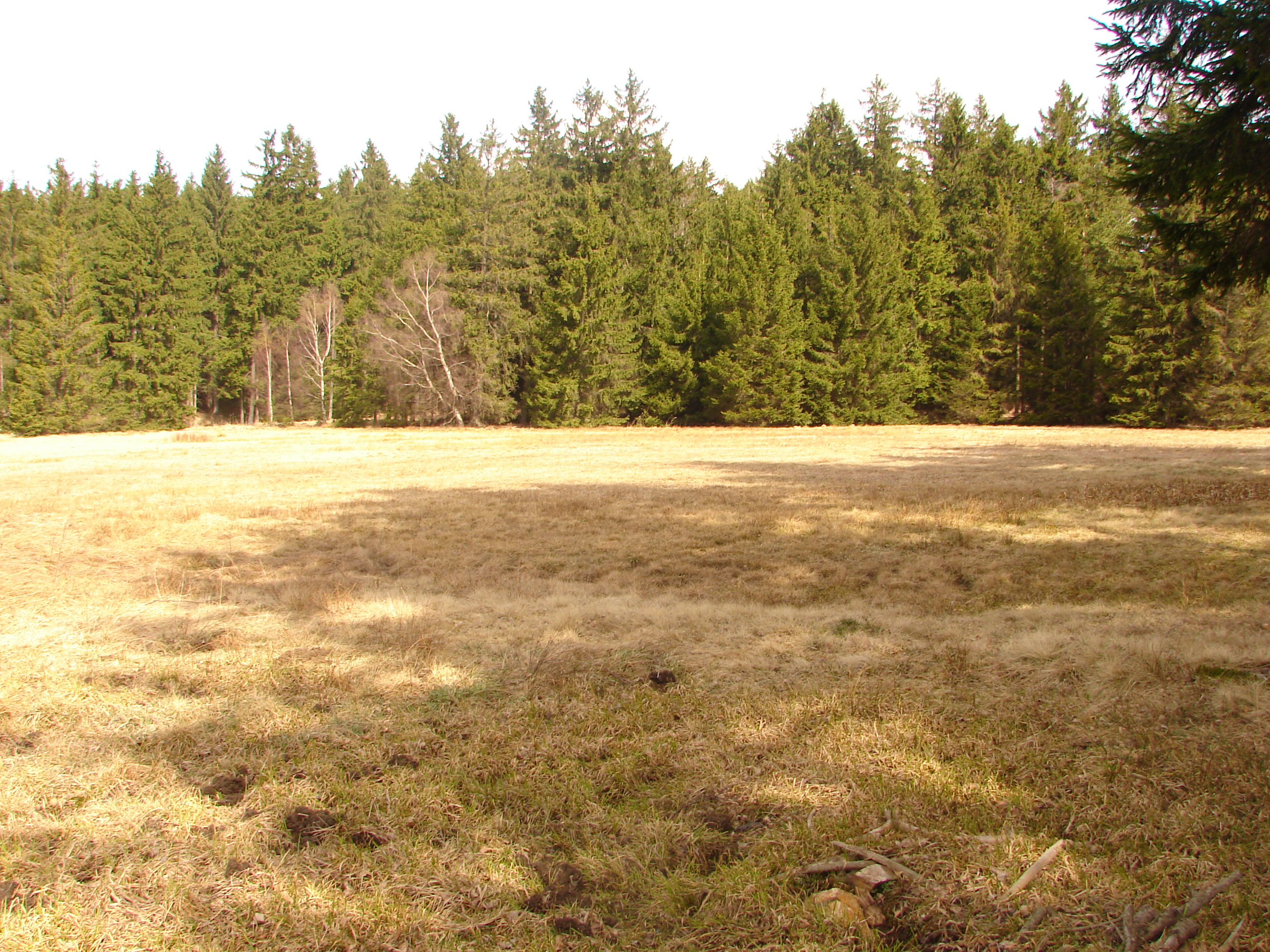 Natural monument Urbánkův palouk in Jihlava District, Czech Republic